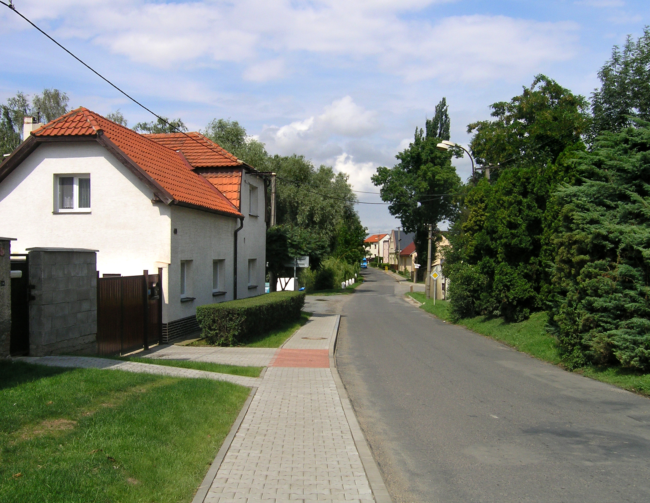 Main street in Nová Ves, Czech Republic